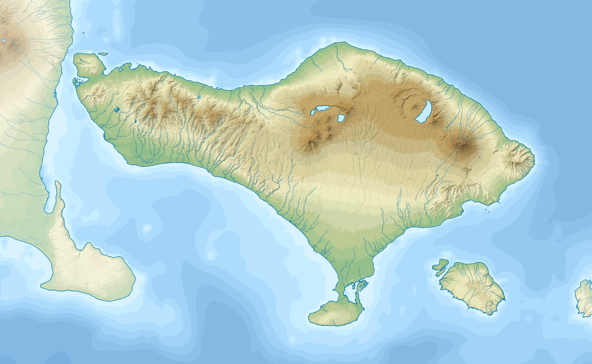 Topographic map of Bali.